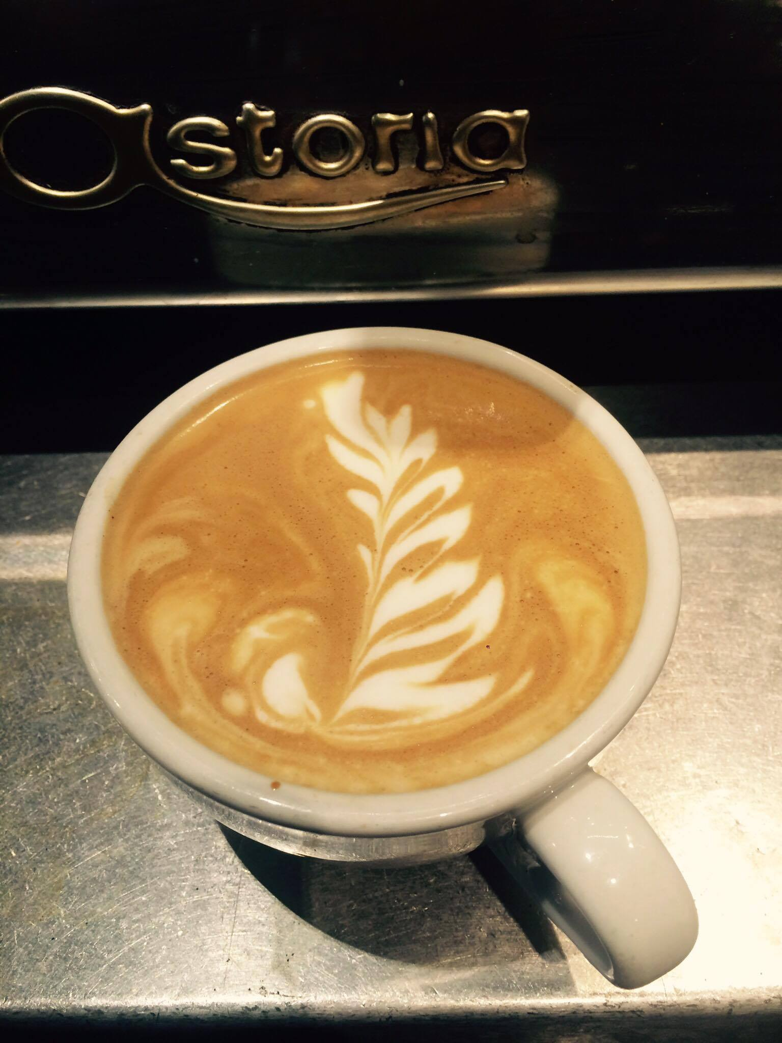 Latte art by a Costa Coffee barista